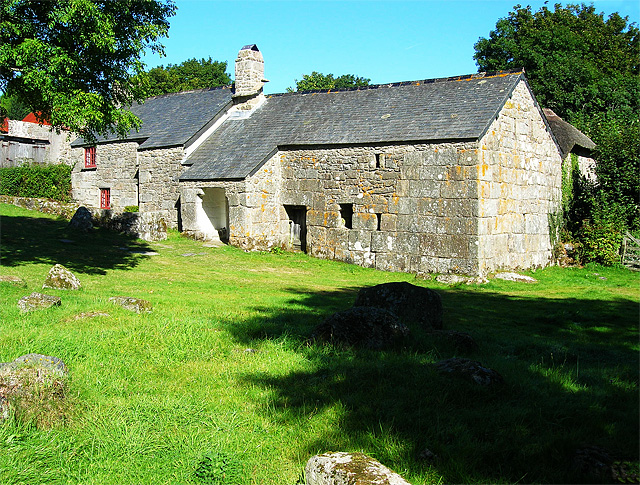 Sanders - Lettaford A very fine early C16 Dartmoor longhouse, with mid-C16 and C17 modifications and additions. A very important surviving example with an unaltered shippon according to English Heritage. Grade I Listed.